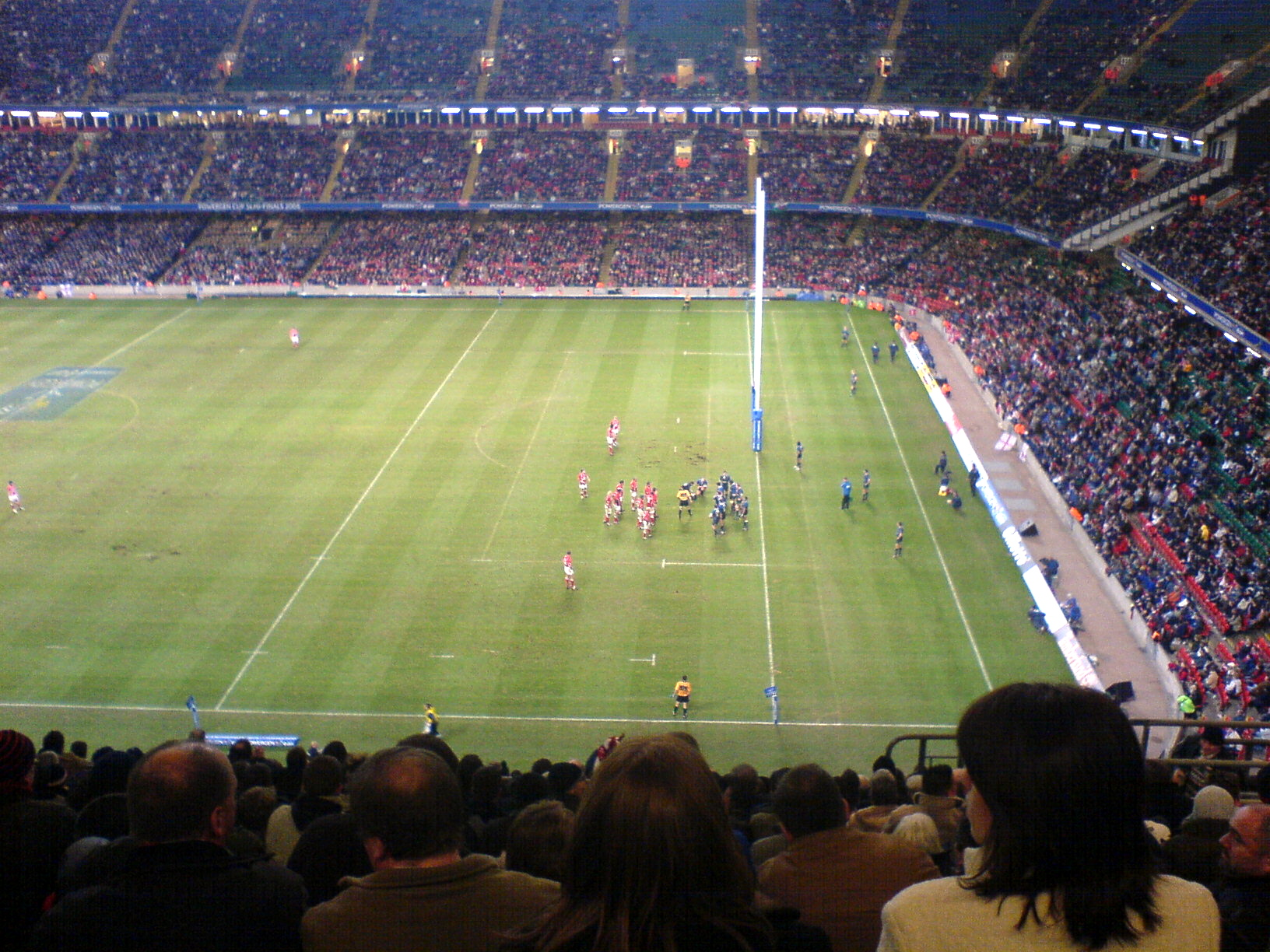 Llanelli Scarlets vs Bath Rugby in Powergen Cup semi (from flickr)